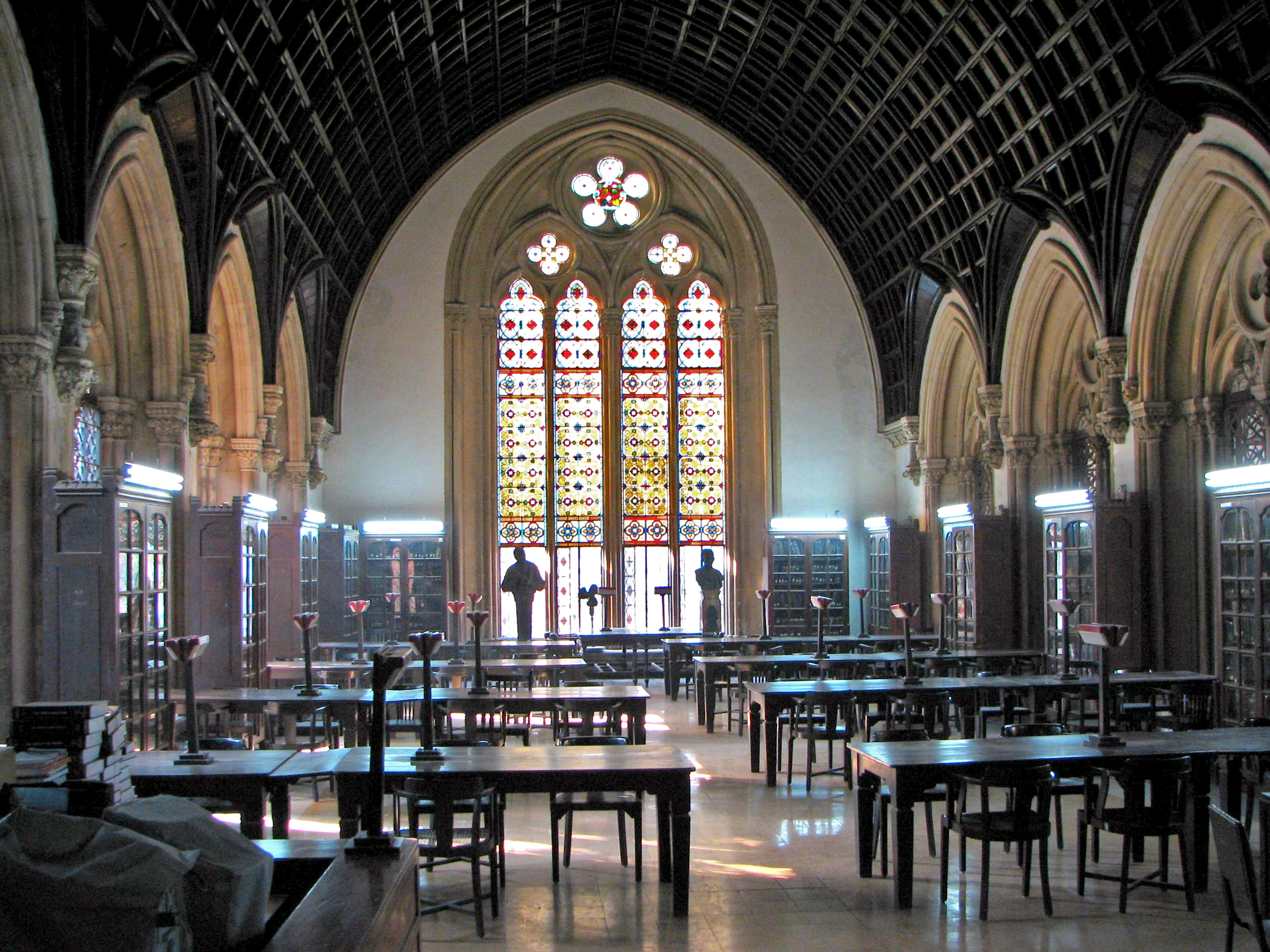 Library of University of Mumbai, India